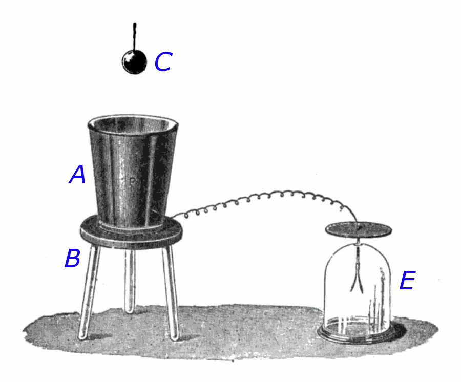 A drawing of the apparatus used in Faraday's ice pail experiment, a simple electrostatics experiment performed by British scientist Michael Faraday in 1843, from a 1917 electrical engineering book. The apparatus he used is a metal ice pail (A) supported on a wooden stool (B) to insulate it from the ground. A brass ball charged with electricity hanging from an insulating silk thread (C) can be lowered into the pail. The outside of the pail is connected by a wire to a gold-leaf electroscope (D) which can detect charge on the pail. As the ball is lowered into the pail, the electroscope indicates that the outside of the pail becomes charged with the same polarity charge as the ball. The inside of the pail, if tested by the electroscope, is charged with an opposite charge, due to electrostatic induction. If the ball is then touched to the inside of the pail, both the ball and the inside of the pail are left uncharged, indicating that their charges cancelled each other. This demonstrates that a charge inside a conductive container induces a charge of the exact same size on the inside of the container. Alterations to image: romoved caption and replaced the letter labels on the drawing with the ones Faraday used in his description of the experiment.